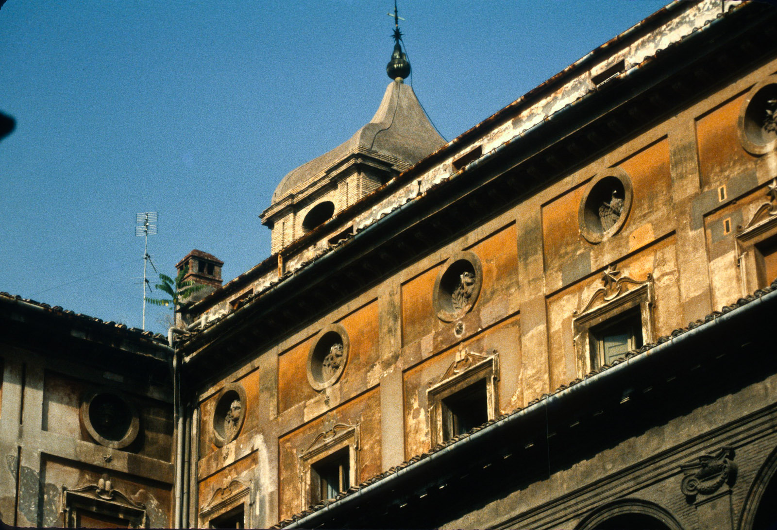 Courtyard